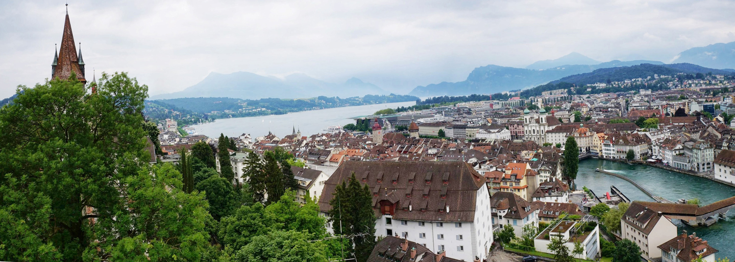 Lucerne city, lake and mountains view from the tower.